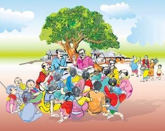 గ్రామ పంచాయతీ నిర్మాణం